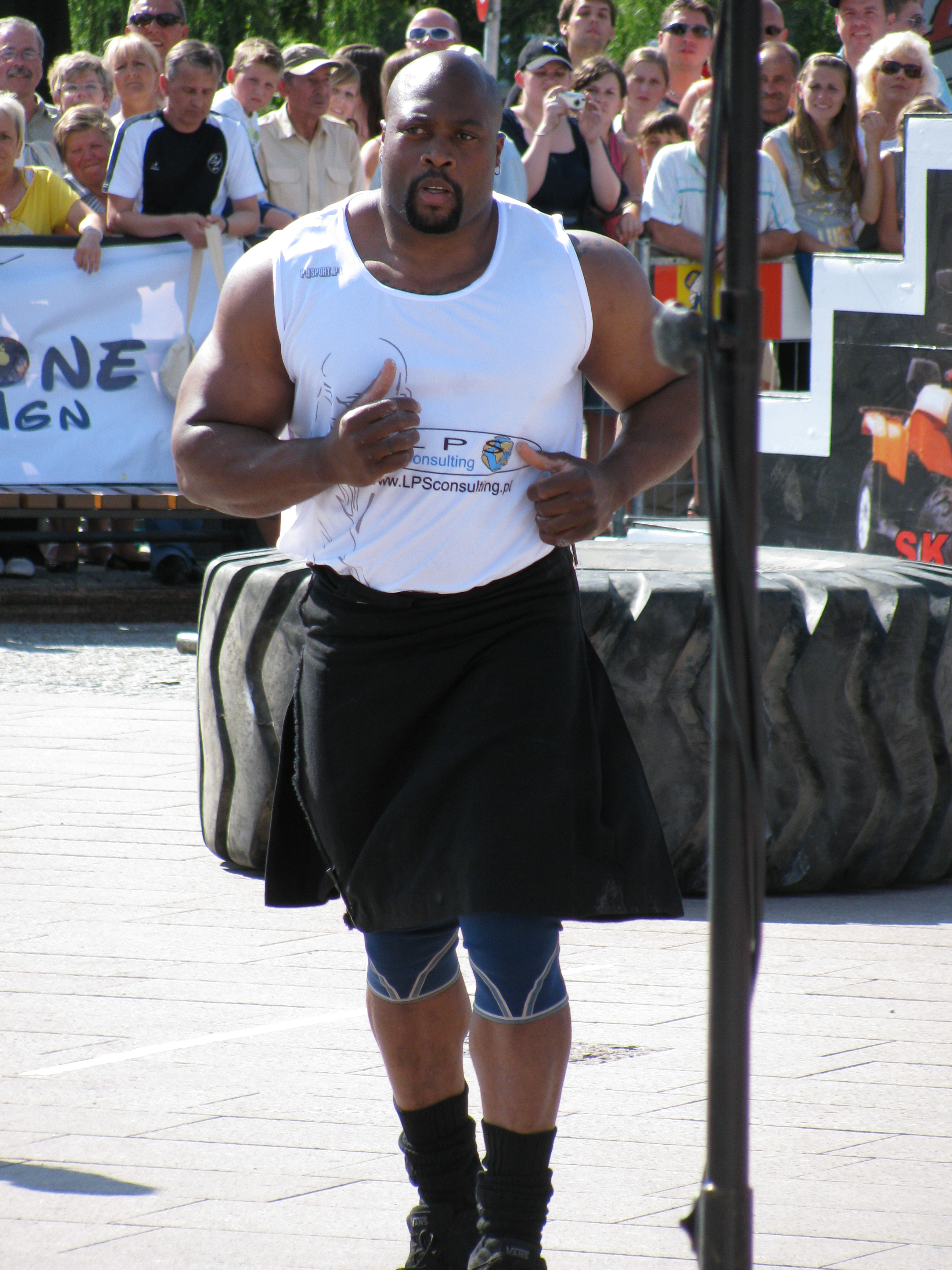 Mark Felix - a strength athlete from Grenada & England